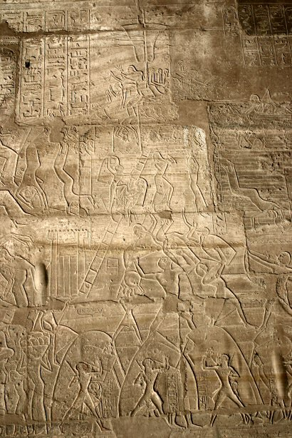 Ramesseum Bas-relief. The Siege of Dapur by Alex Lbh in April 2005.